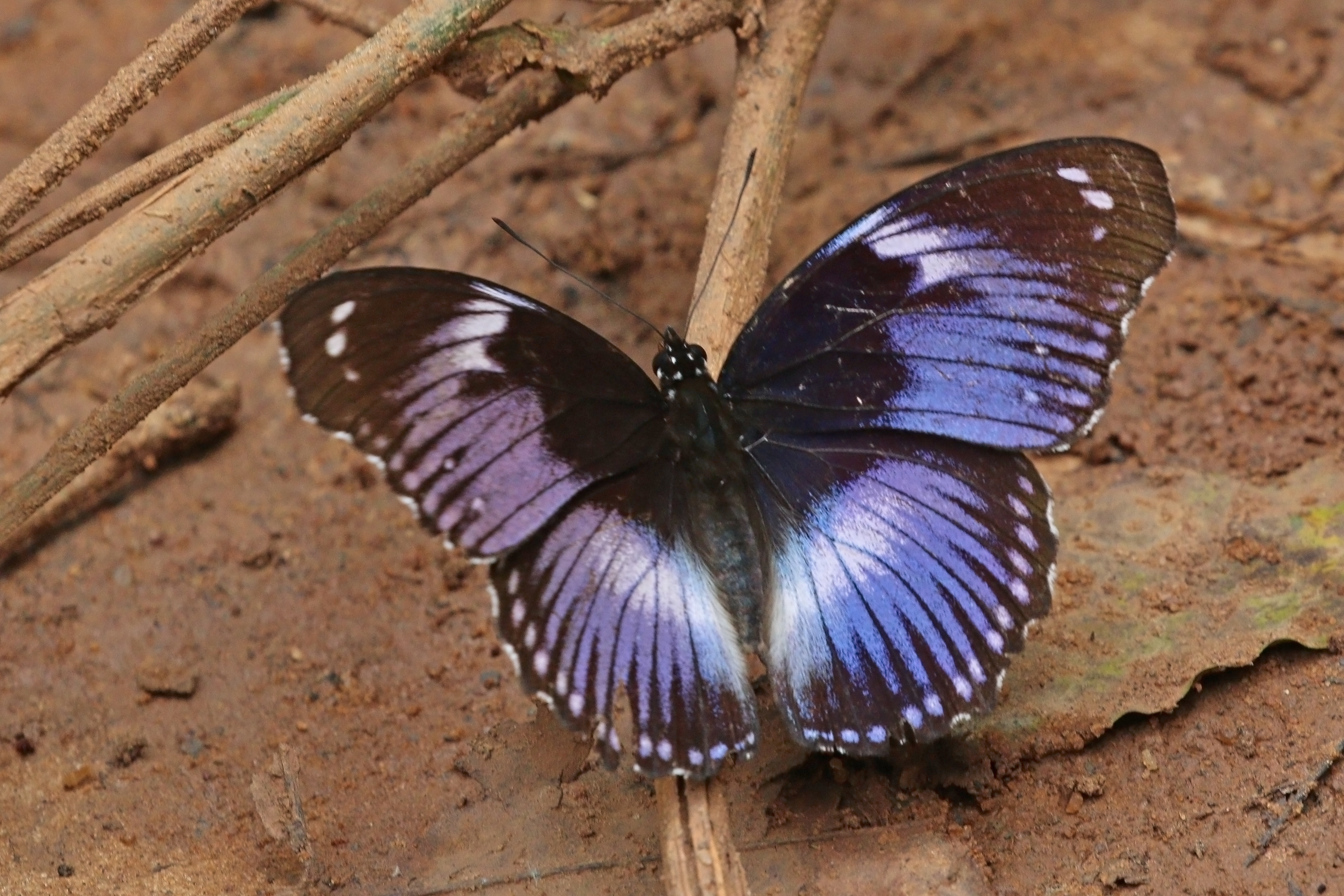 Blue diadem (Hypolimnas salmacis salmacis) male, Bobiri Forest, Ghana